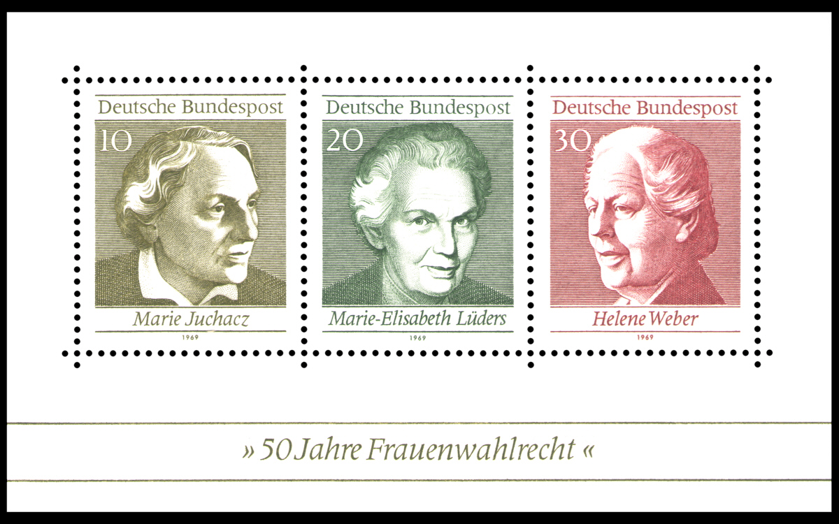 stamps 50 years of women's suffrage, Marie Juchacz, Marie-Elisabeth Lüders und Helene Weber Graphic designer: Walter Ausgabepreis: 10+20+30 Pfennig Size 100 mm x 60 mm First Day of Issue / Erstausgabetag: 11. August 1969 Michel-Katalog-Nr: 596, 597, 598 (Block 5)